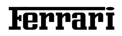 Wordmark of Ferrari